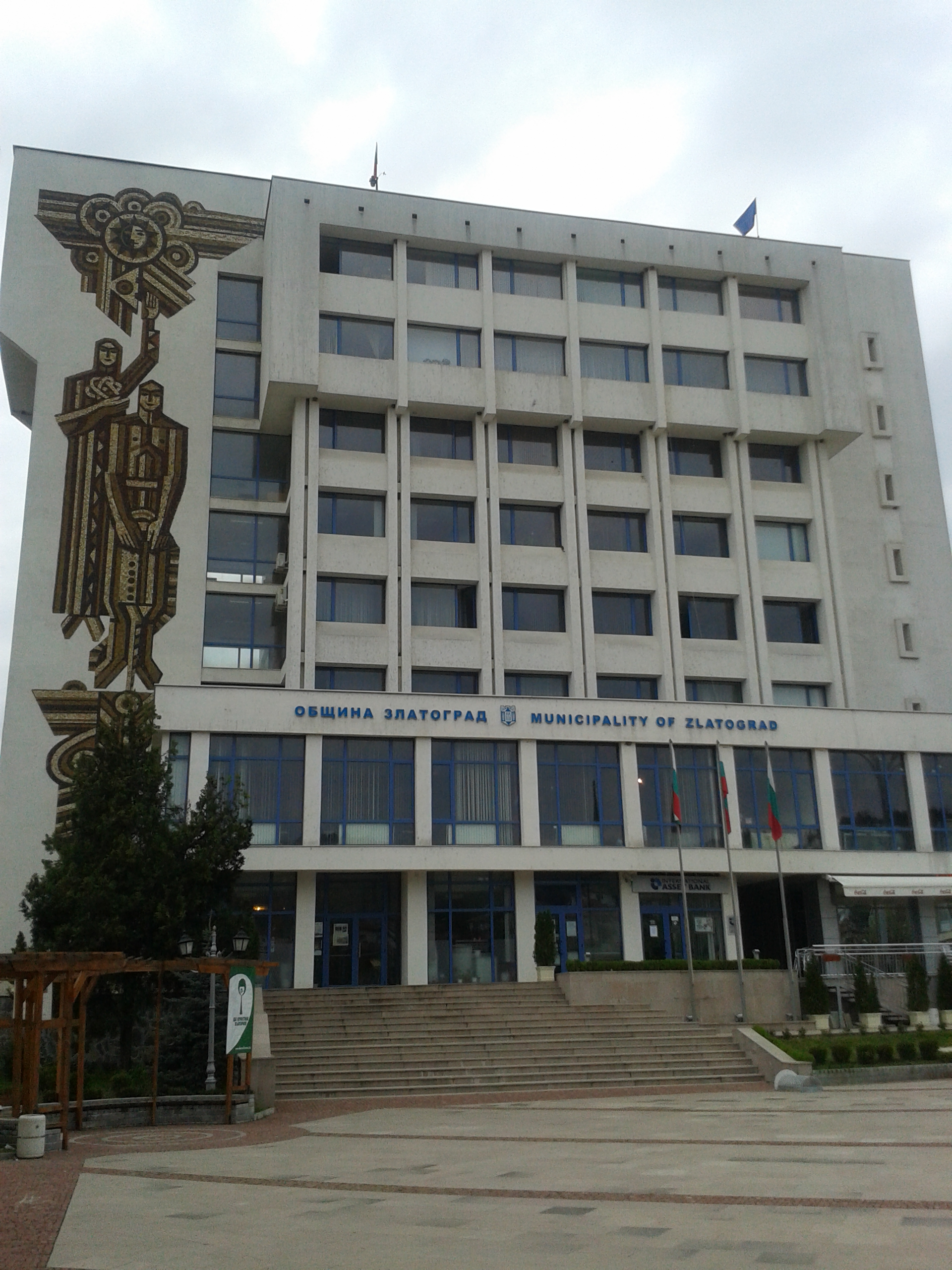 The building of the municipality in Zlatograd